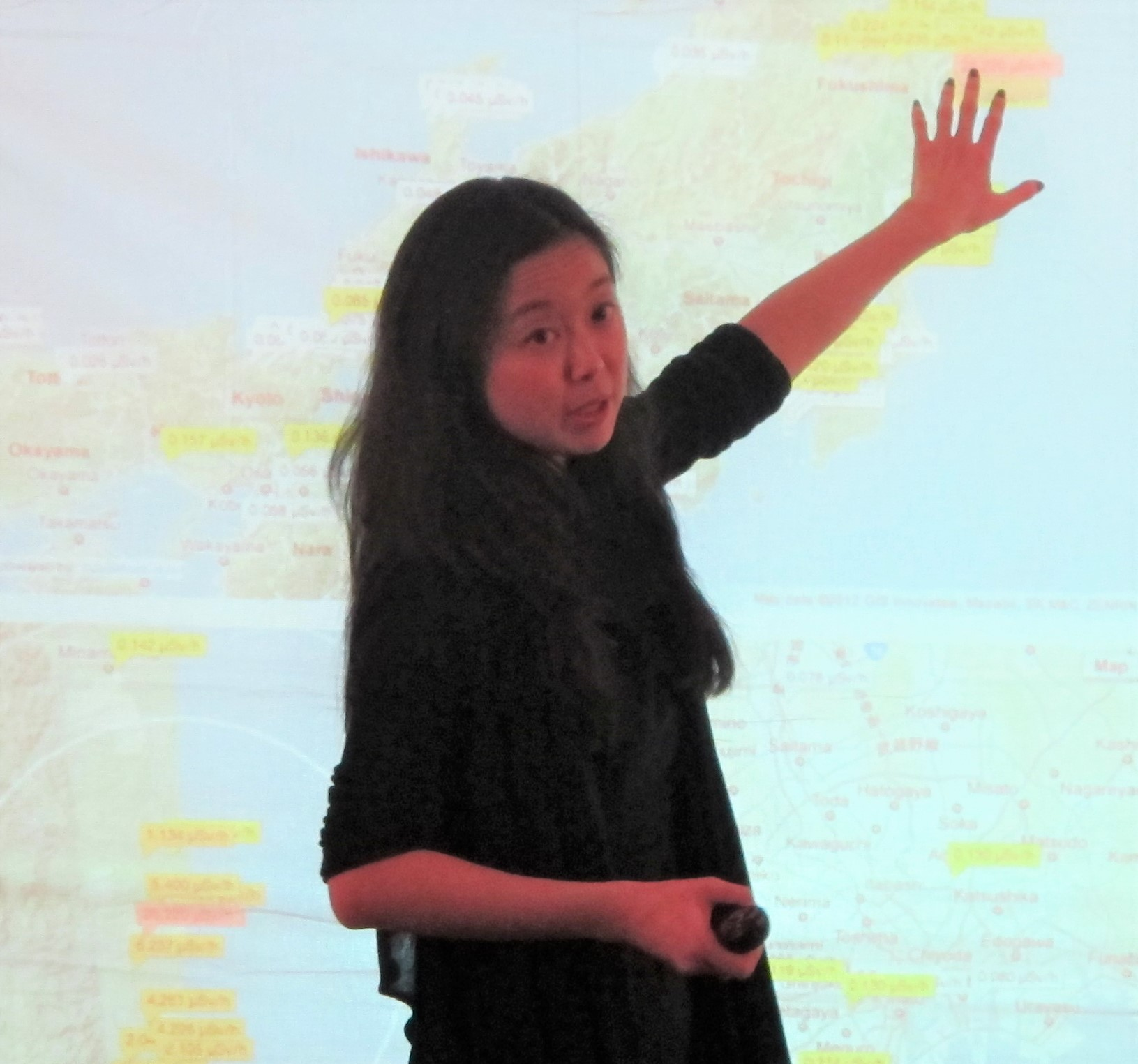 Haiyan Zhang, principal interaction designer at IDEO London & doyenne of the Make-a-thon, talked about her Japan Geigermap, a map which visualises crowd-sourced radiation geiger counter readings from across Japan